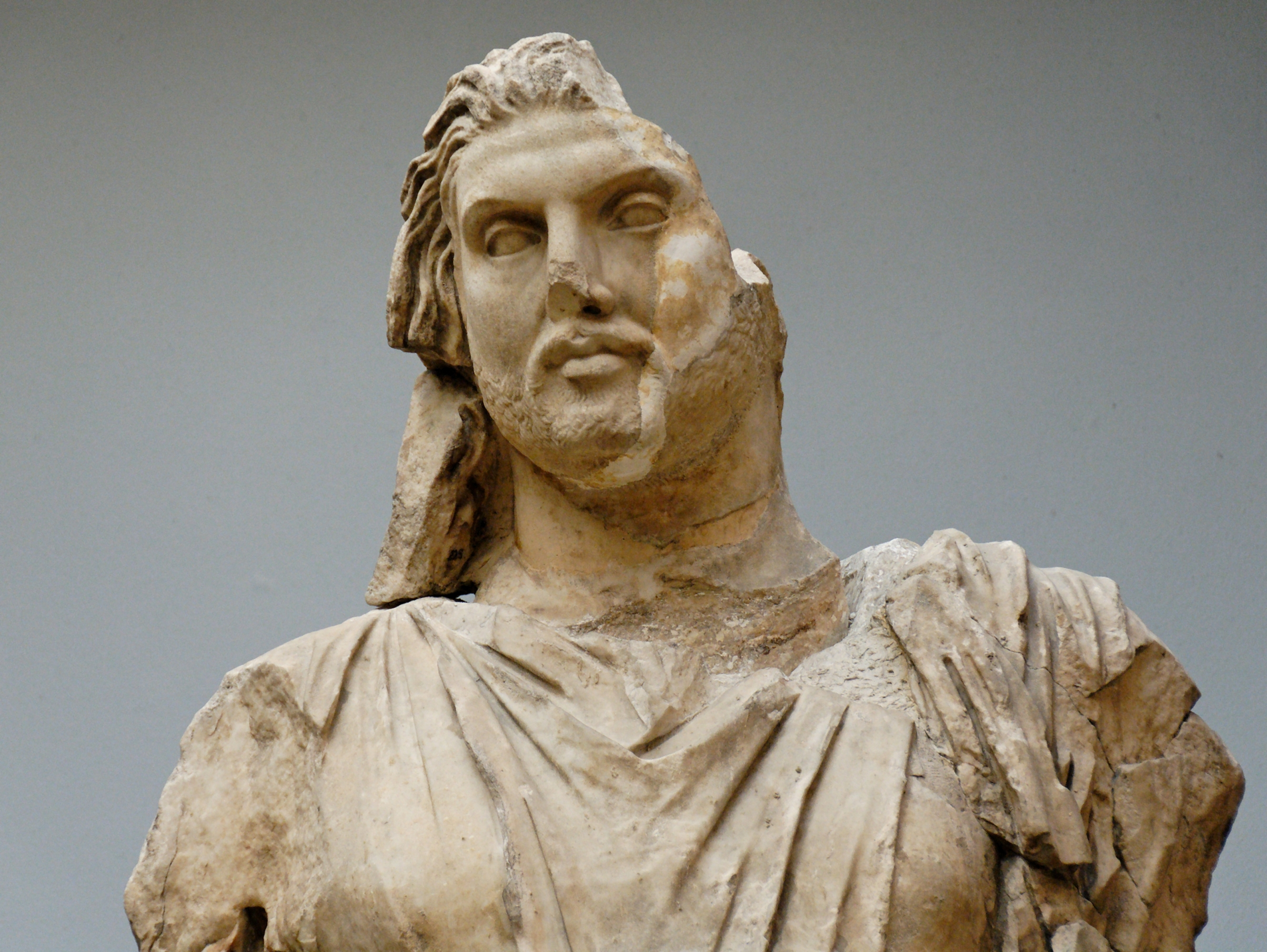 Colossal statue of a man, traditionnally identified with Maussollos, king of Caria. Parian marble, ca. 350 BC. From the north side of the Mausoleum of Halikarnassos (modern Bordum, Turkey).